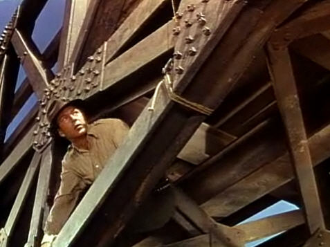 Actor Gary Cooper in For Whom the Bell Tolls - trailer (screenshot)